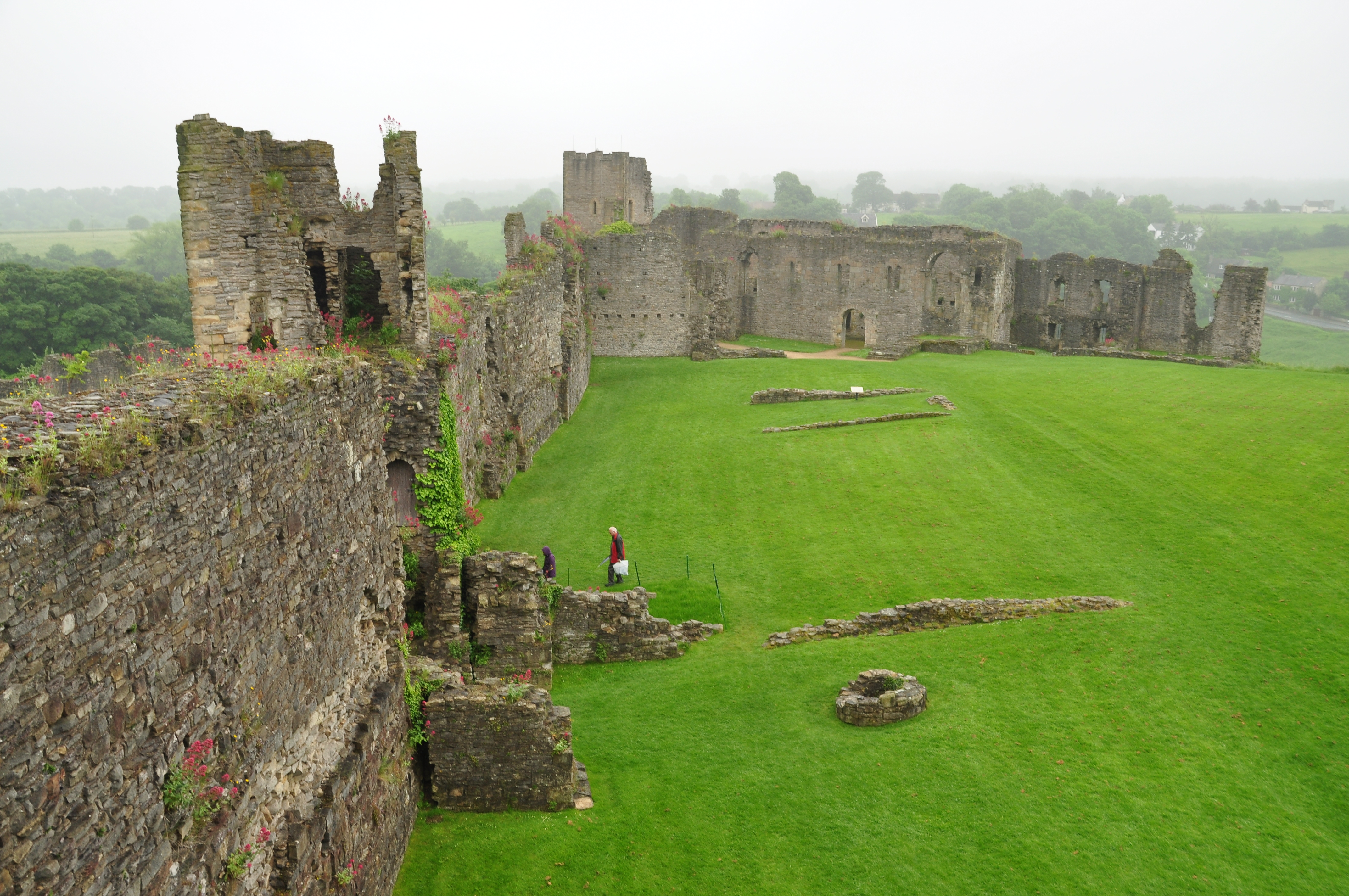 Richmond Castle